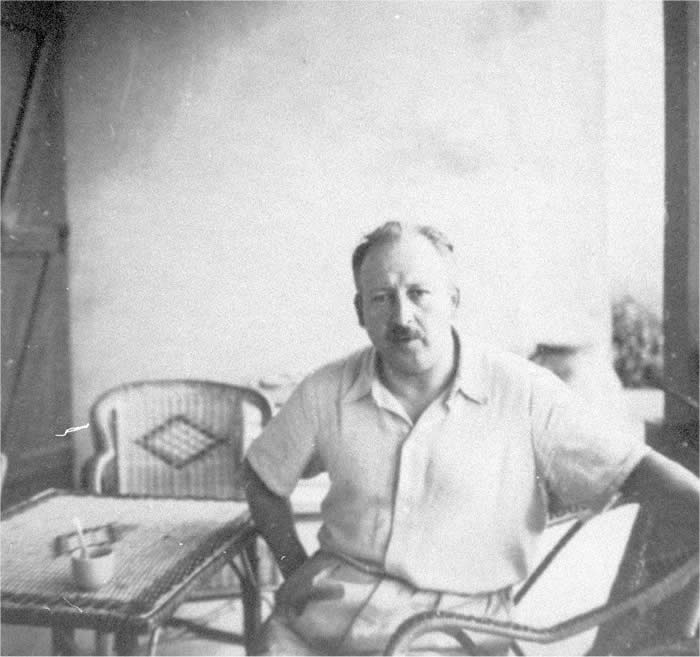 Photograph of the French psychiatrist and psychoanalyst René Laforgue (1894–1962).